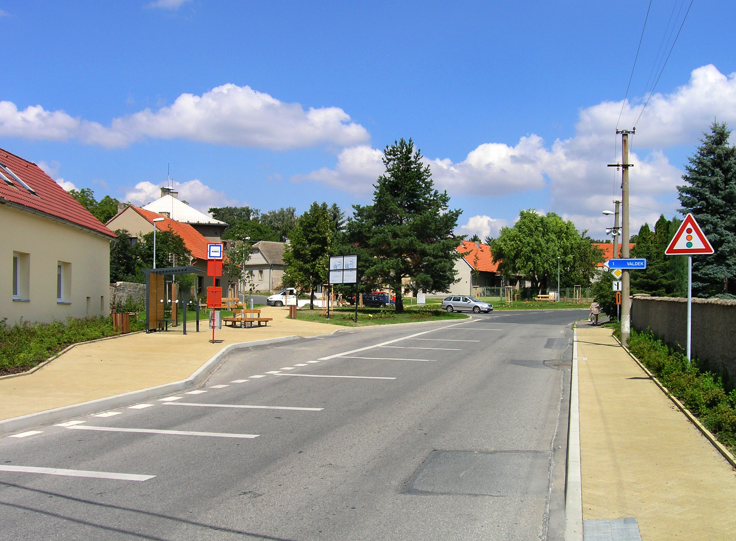 Common in Braškov, Czech Republic